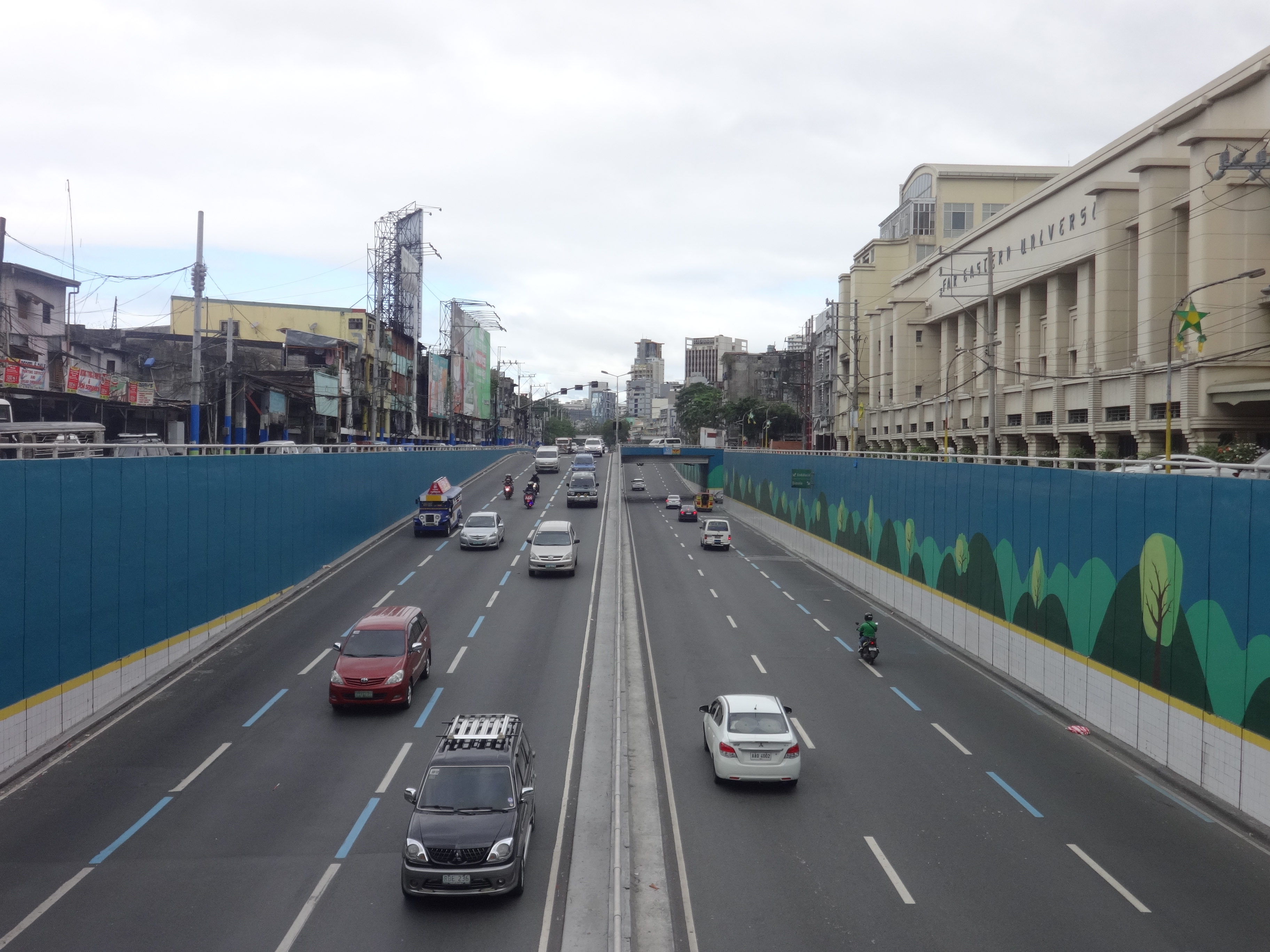 Quezon Boulevard Underpass in Manila